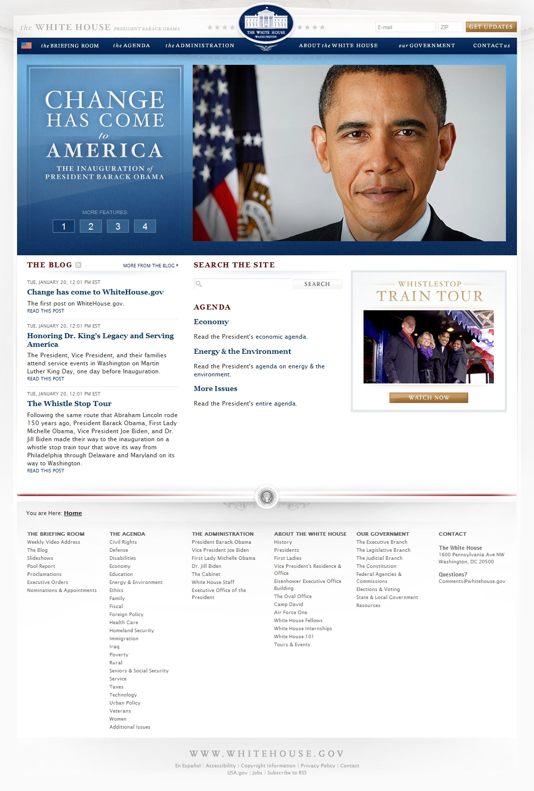 Opening screen of the website that went live immediately after the inauguration of Barack Obama.